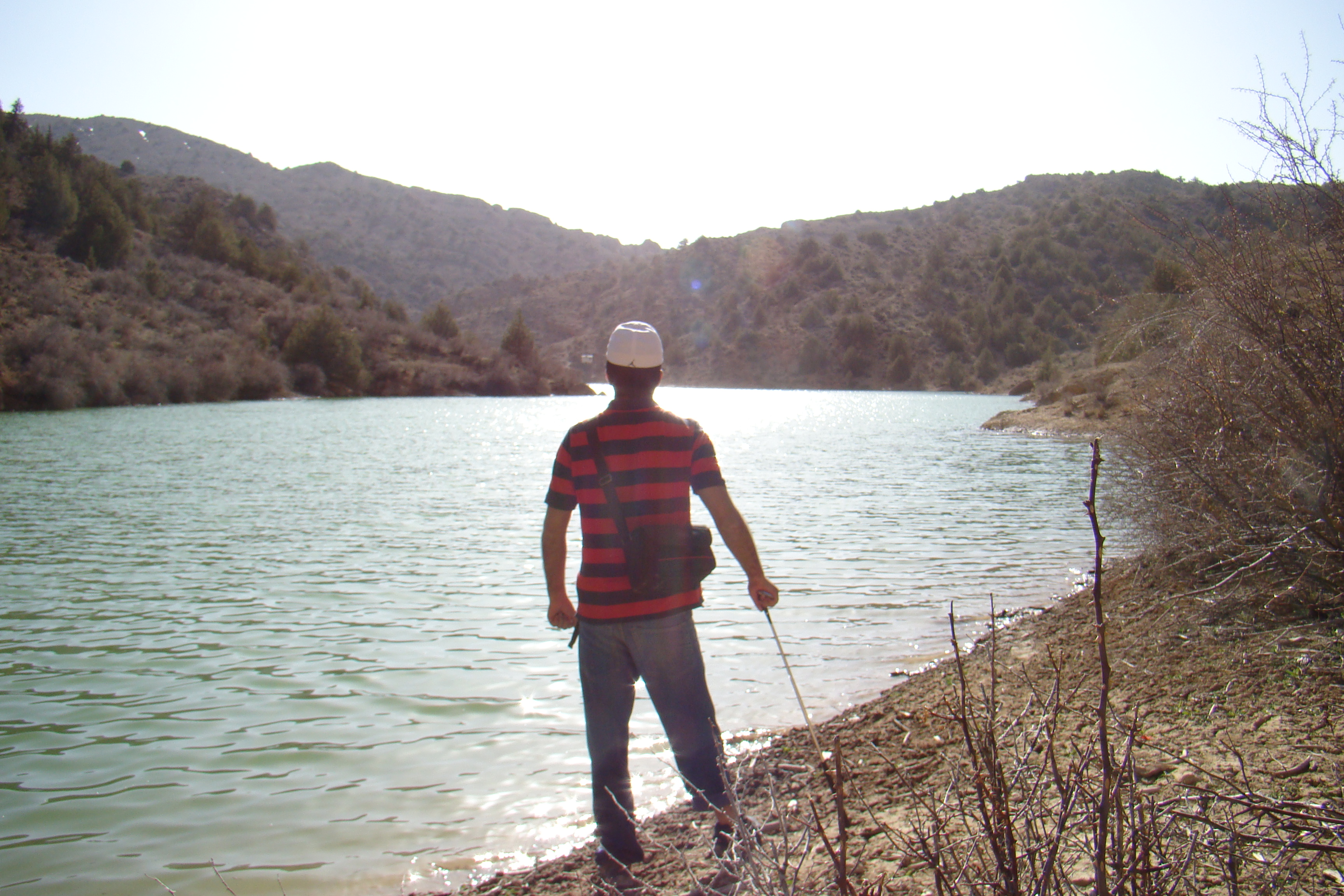 Walli Tangi Dam in Pakistan